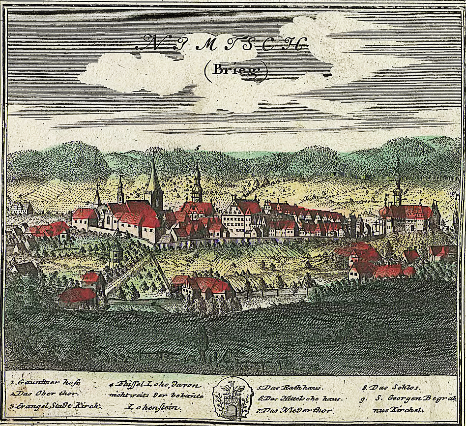 View of Nimptsch (Niemcza), Friedrich Bernhard Werner, 1752